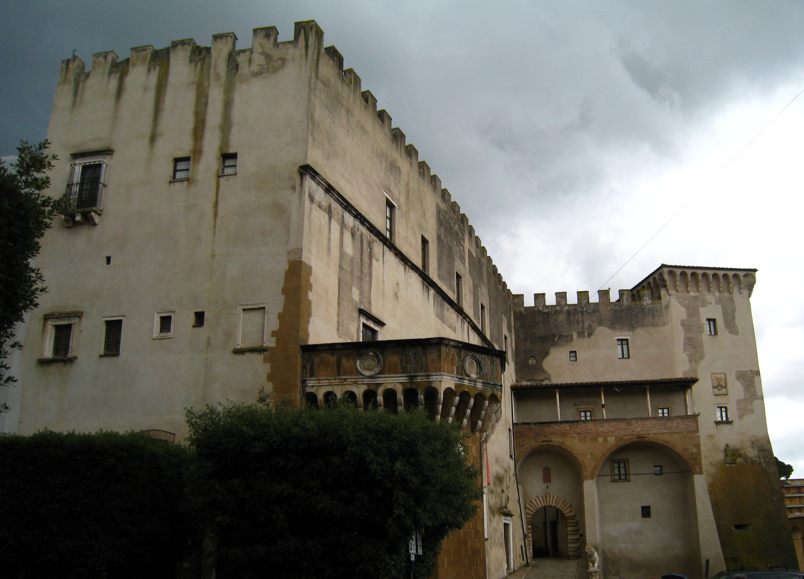 Palazzo Orsini in Pitigliano, Tuscany, Iytaly